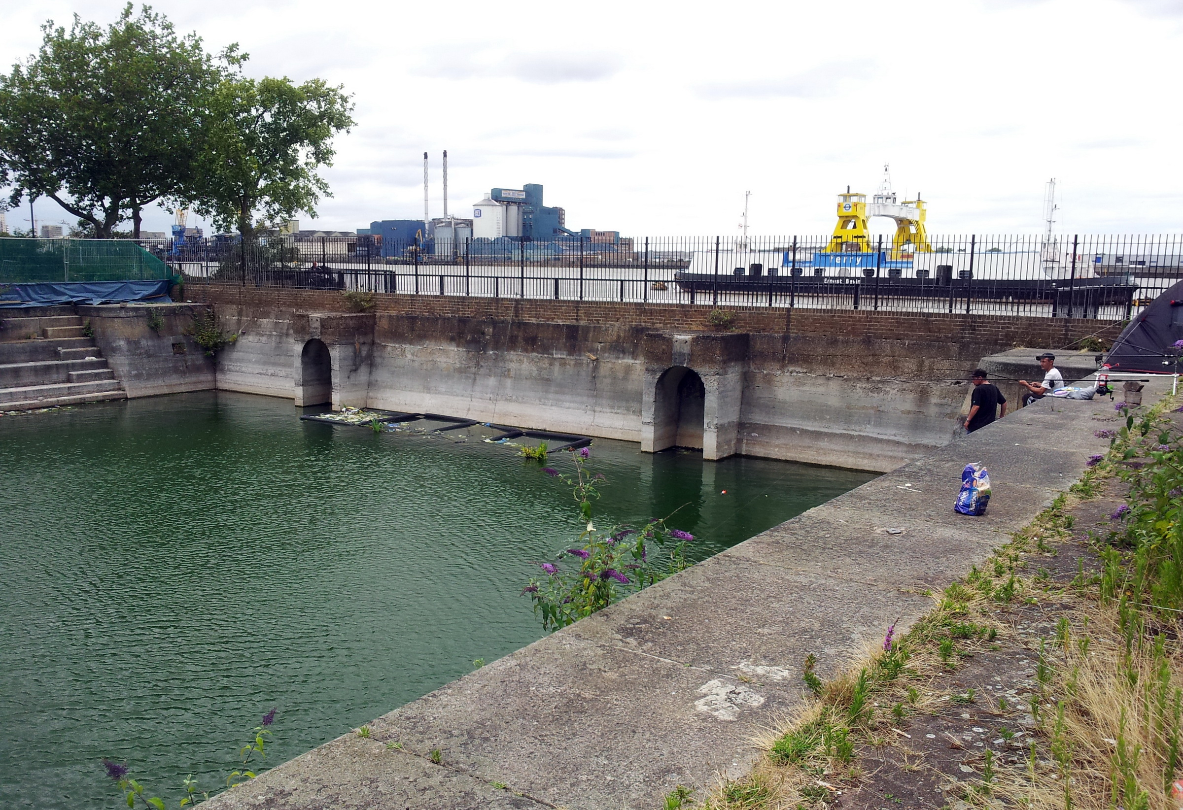 Fishing in a disused dock (Dock No. 3) at Woolwich Dockyard, Woolwich, South East London, UK.